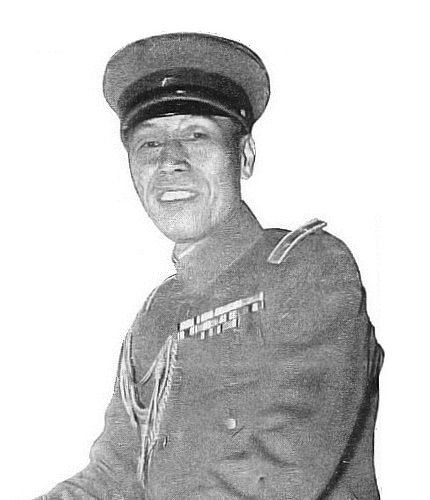 Toshizo Nishio